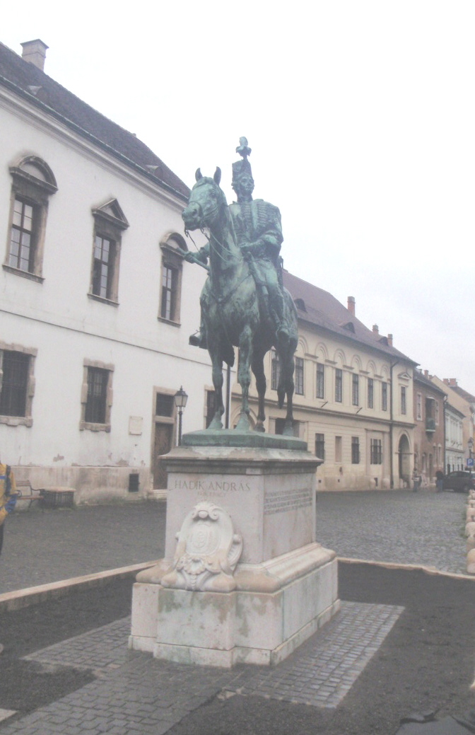 Statue of András Hadik on Úri utca in Budapest I, Hungary